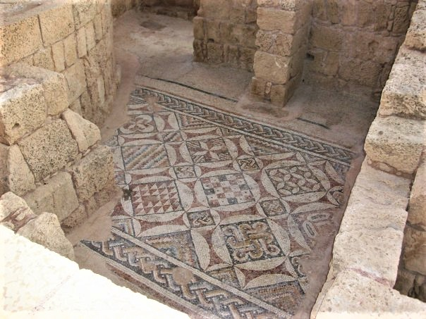 The ancient city of Caesarea Maritima was built by Herod the Great about 25–13 BCE as a major port. It served as an administrative center of Judea Province of the Roman Empire.